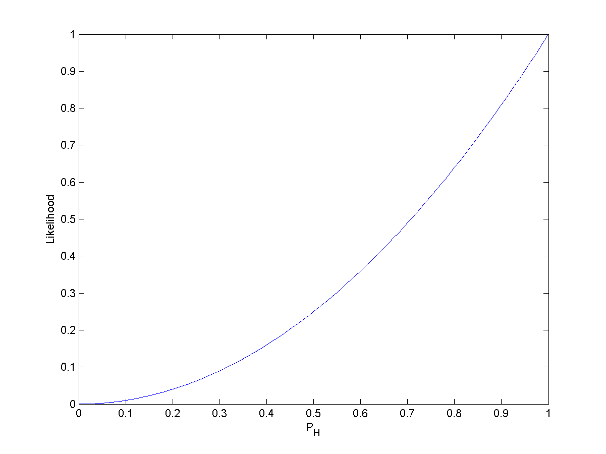 Estimating the probability of a coin landing heads-up after observing HH without a priori knowledge